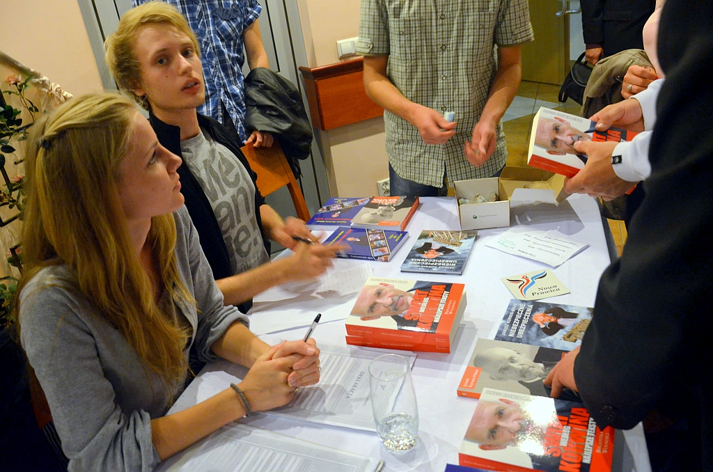 Janusz Korwin-Mikke